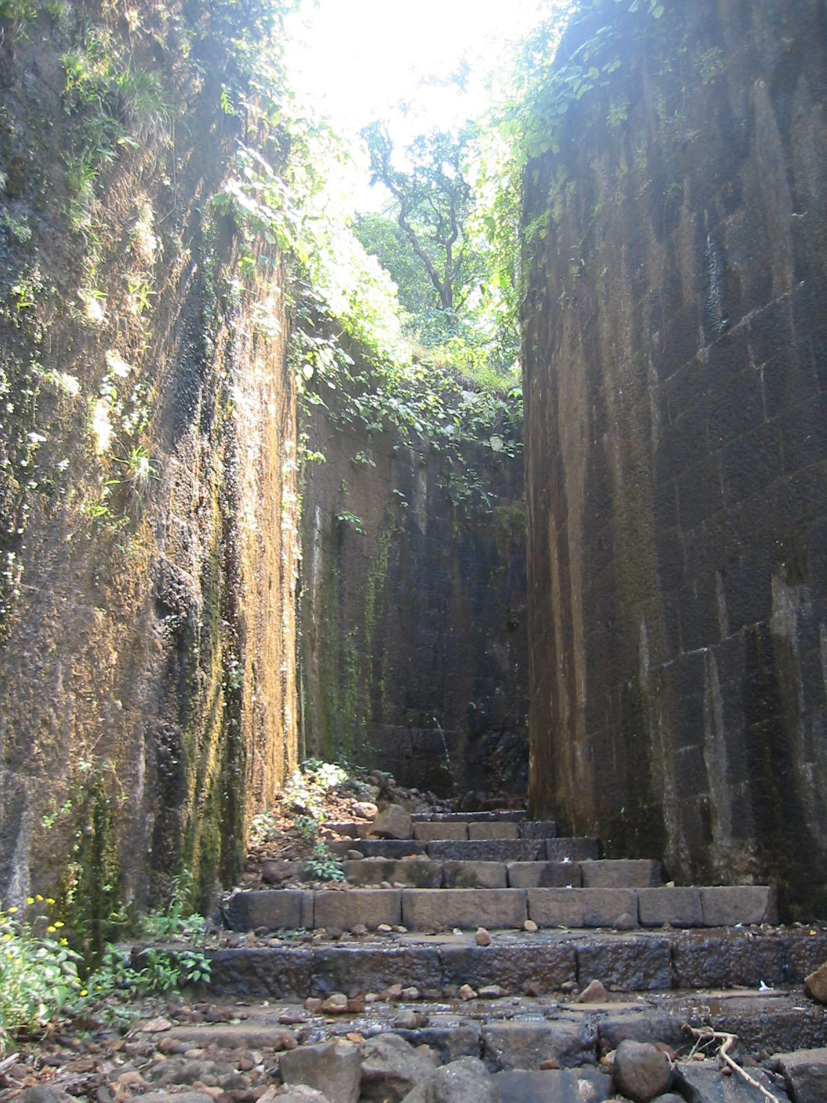 The impressive stone entrance way to Sudhagad, Maharashtra, India